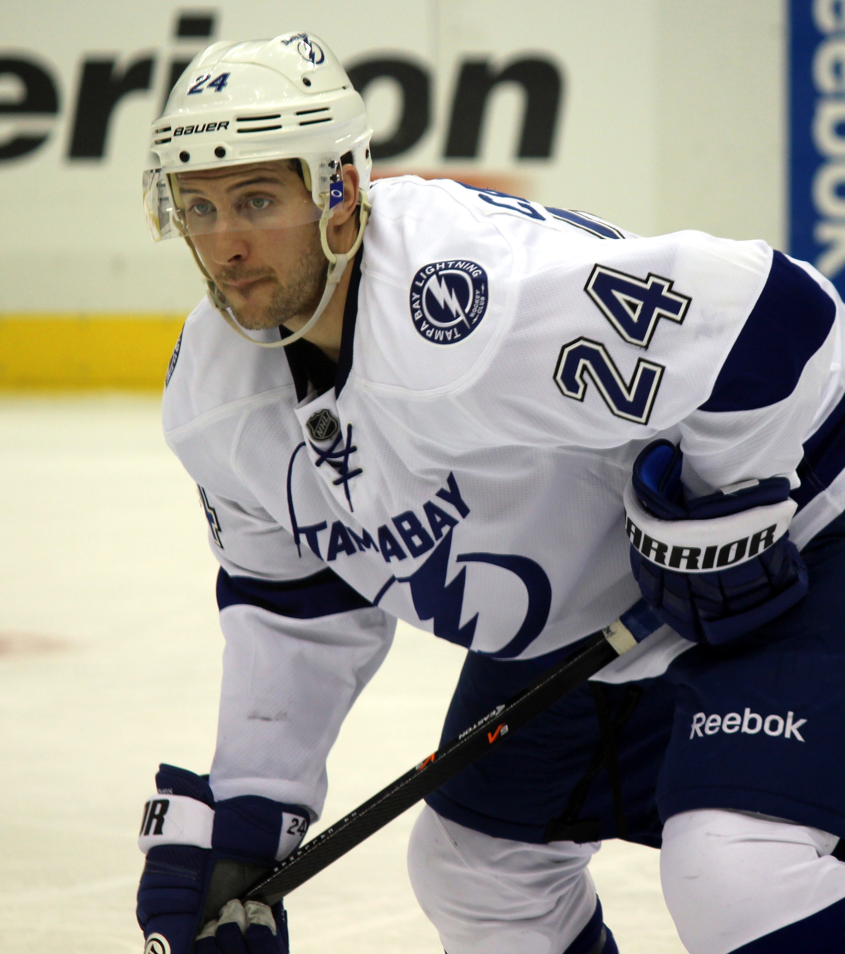 Tampa Bay Lightning forward Ryan Callhan skates against the Pittsburgh Penguins, March 22, 2014, at Consol Energy Center in Pittsburgh, PA.